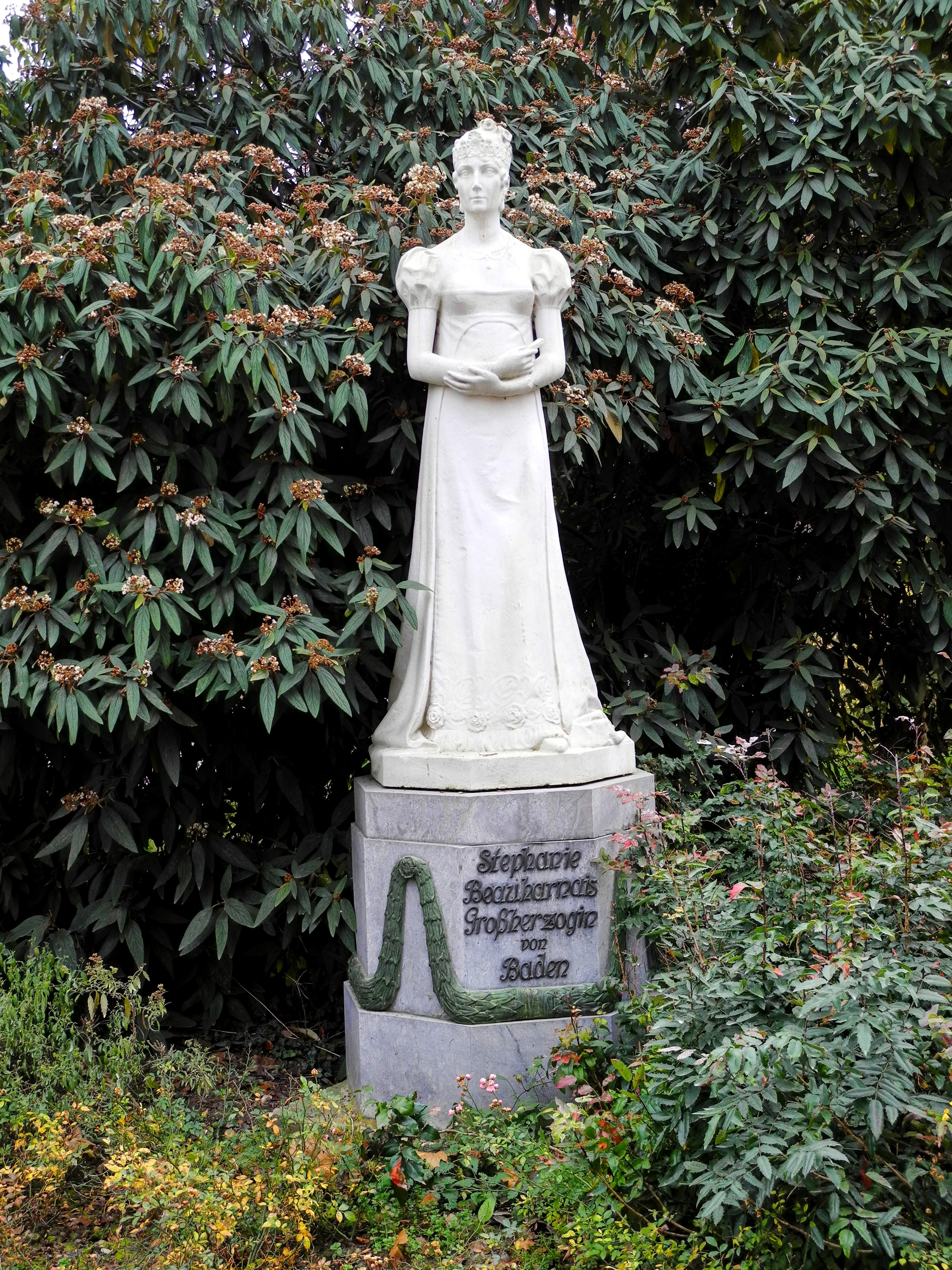 Stephanie Beauharnais, Statue (replica) in Mannheim, Germany